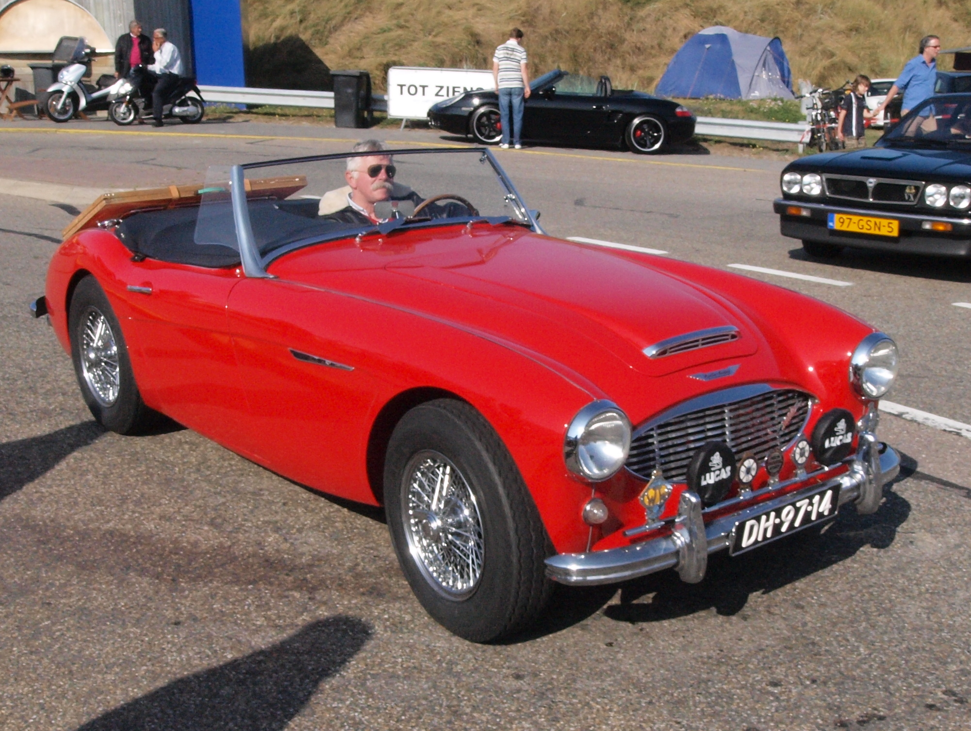 Photographed at the Nationaal Oldtimer Festival Zandvoort 2009, The Netherlands. OLYMPUS DIGITAL CAMERA